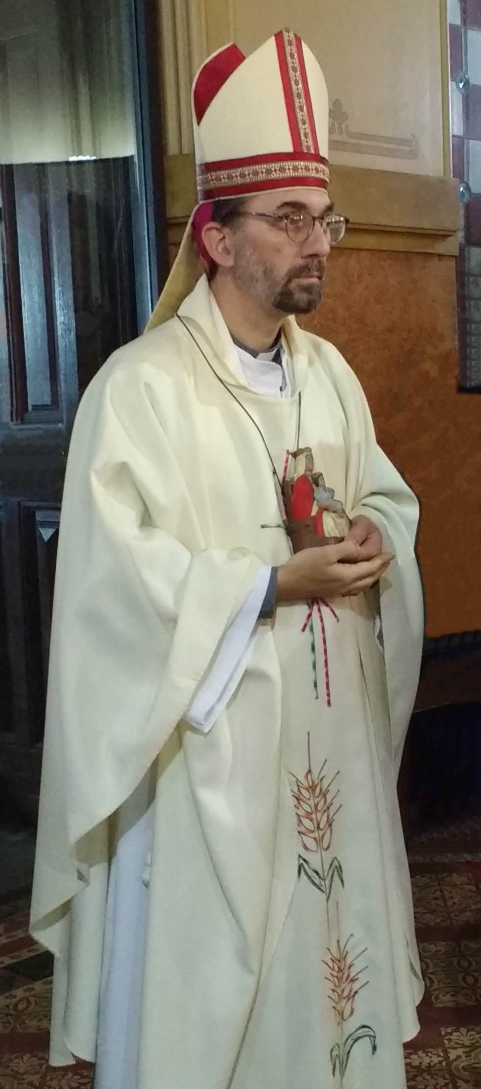 Gustavo Oscar Carrara. Titular Bishop of Thasbalta. Auxiliary Bishop of the Roman Catholic Archdiocese of Buenos Aires.